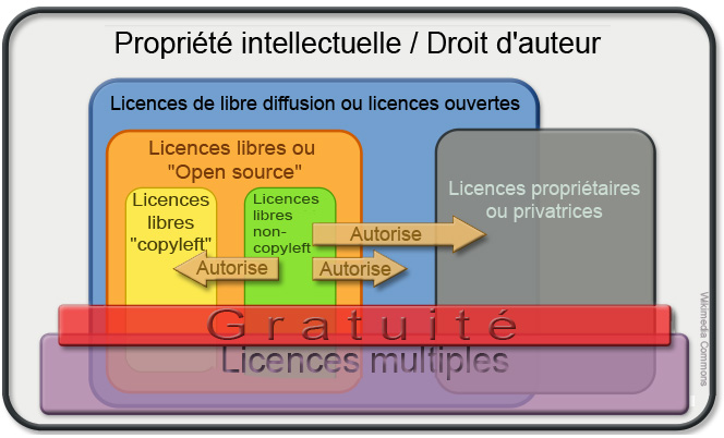 Classification of creative works licenses.